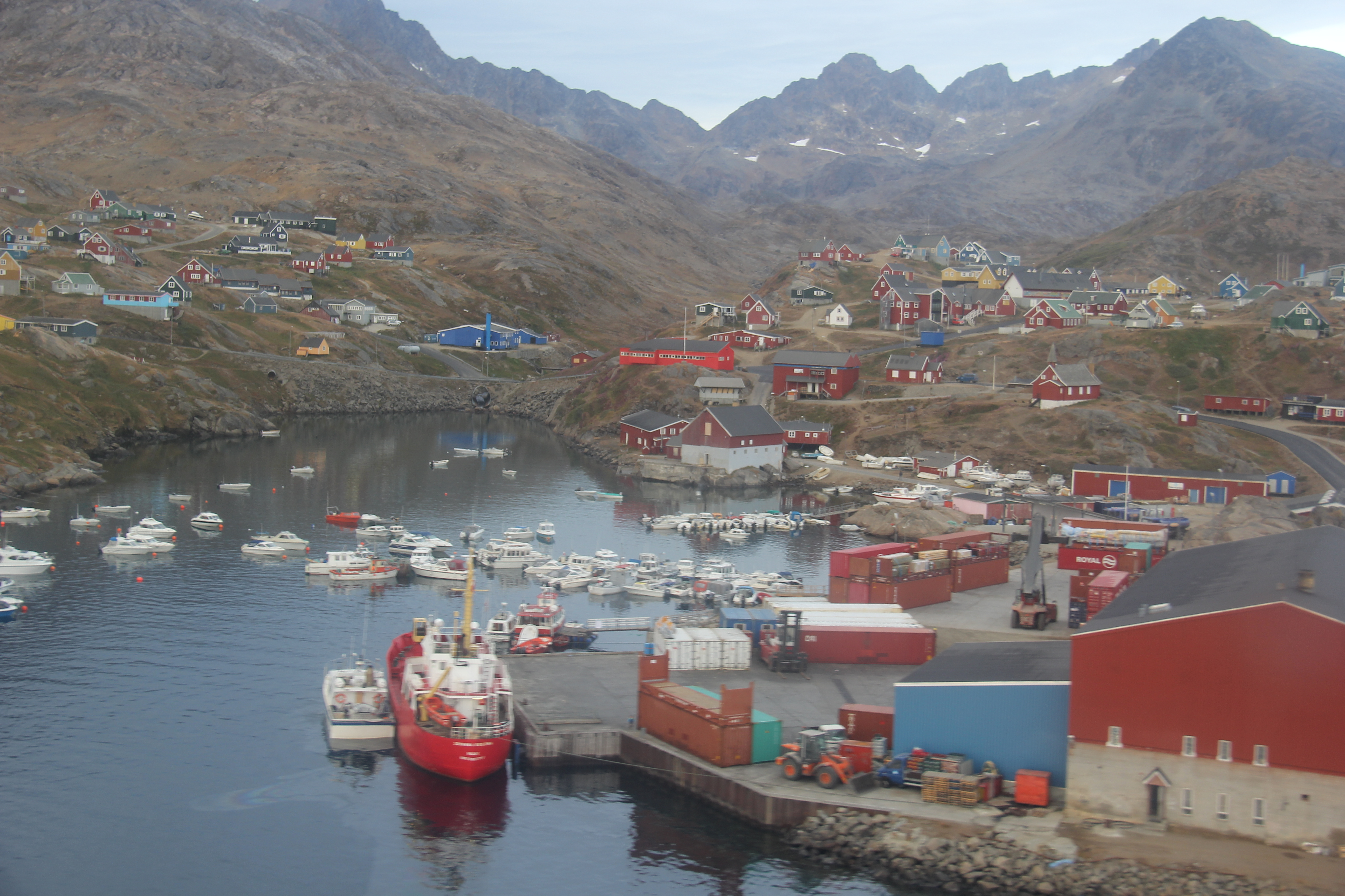 Tasiilaq seen from above the harbour